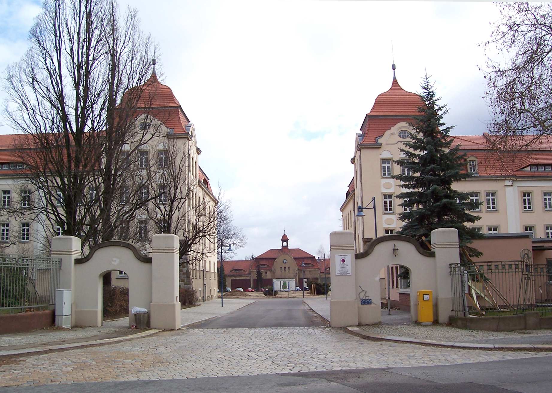 Gate of the former Hussar baracks in Bautzen.